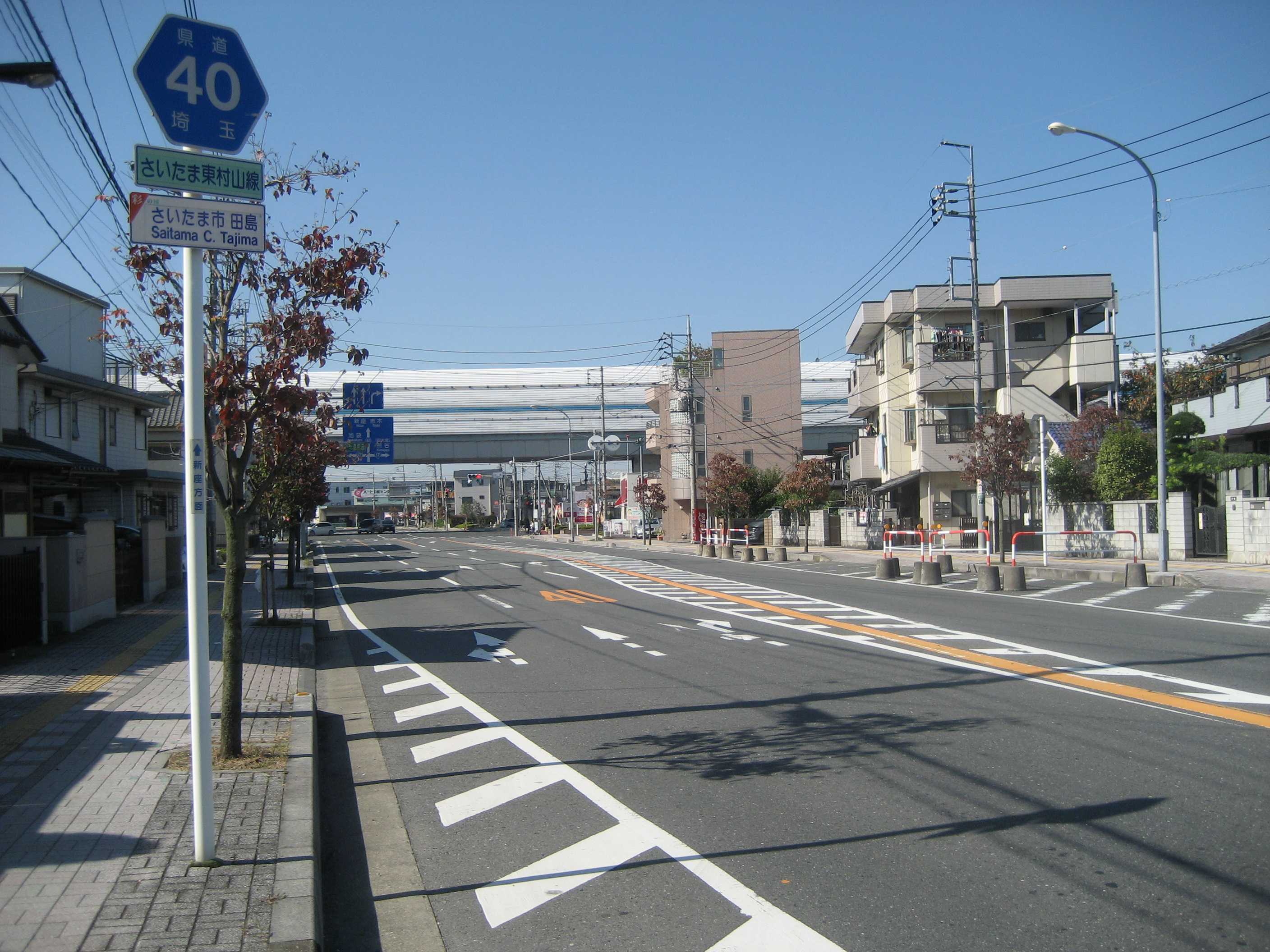 The Saitama Prefectural Road Route 40 in Tajima, Sakura-ku, Saitama City